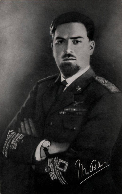 Italo Balbo